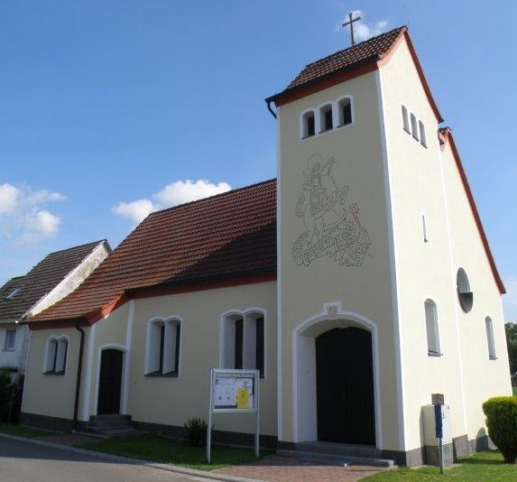 Kath. Kirche St. Georg Würzberg